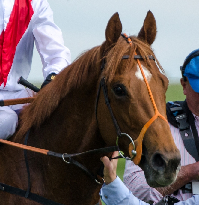 Winner of the 2.000 Guineas 2014